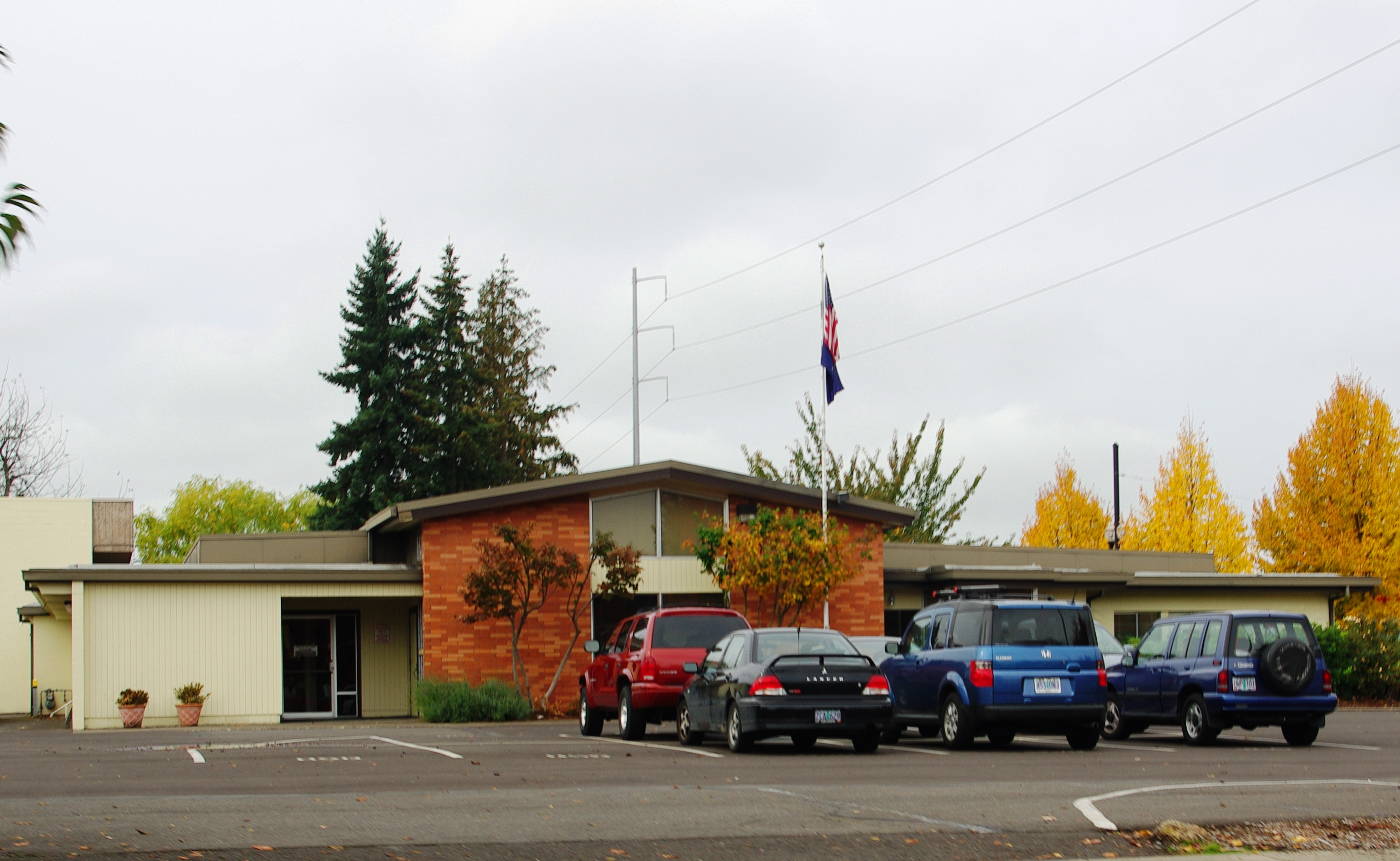 Miller Education Center West in Hillsboro, Oregon, USA.